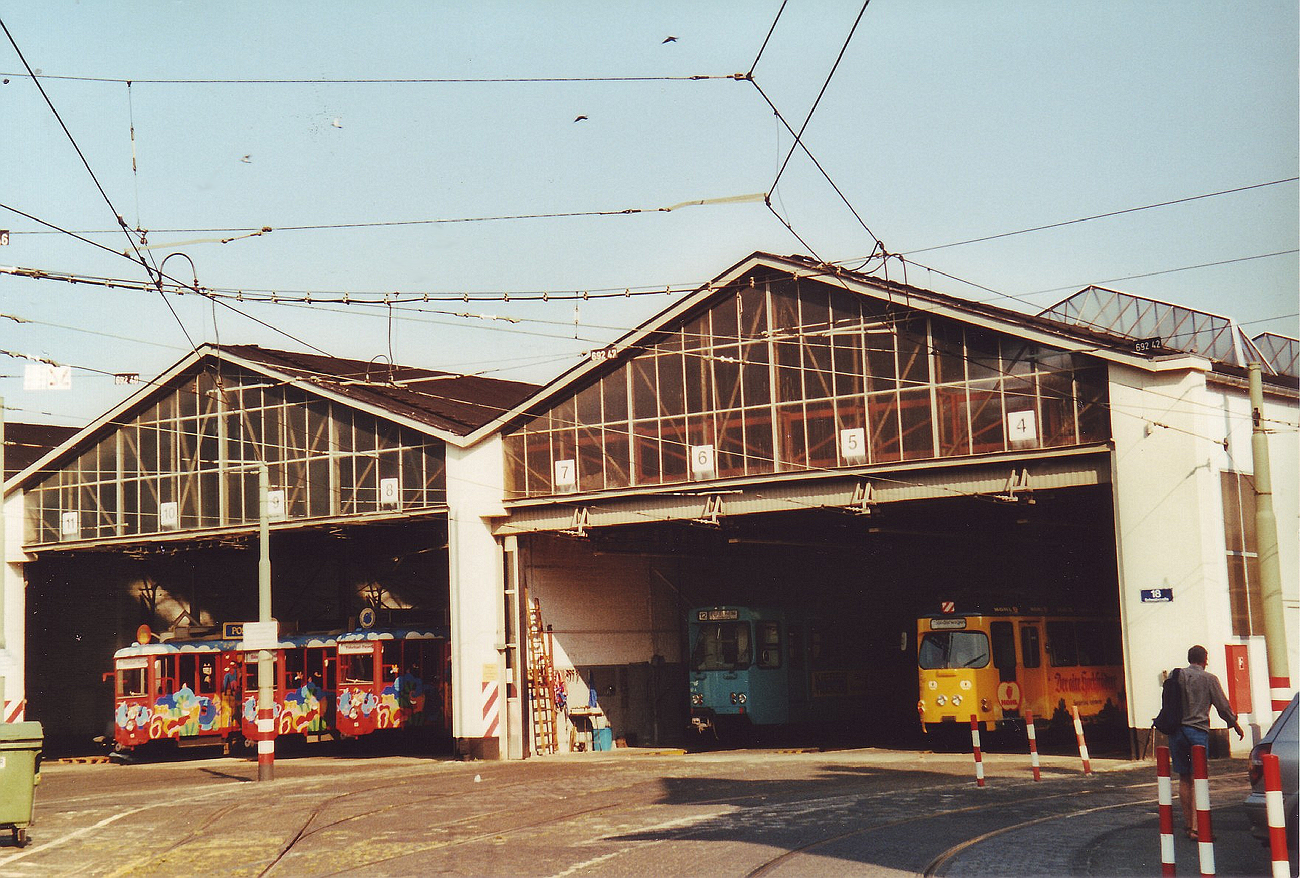 Depot Eckenheim with cider tram of Frankfurt on Main in August 2001